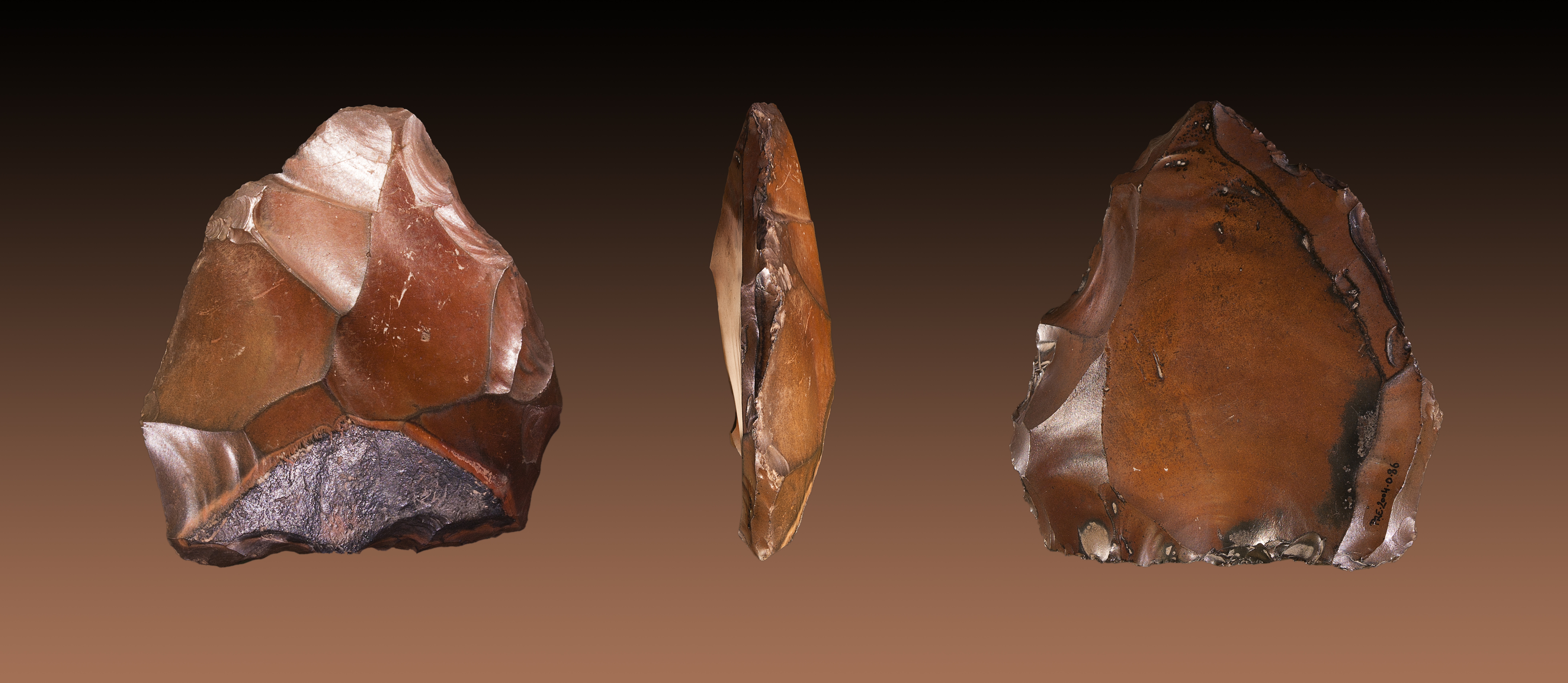 Different views of the same specimen.